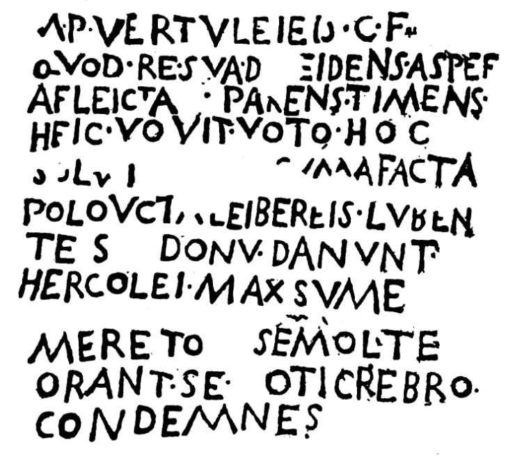 The Inscription, that was discovered in the early 1850s in a garden attached to a church at Sora, in the kingdom of Naples; it is inscribed on a square stone, broken in the middle. Although it is damaged in more than one place, particularly in consequence of the fracture of the stone. Dr. Brunn, who copied it, succeeded in making an exact copy, the few blanks in which are easily supplied by the help of the paper impression which he has brought to the British Philological Society. [Text]: "Λ•P•VERTVLEIED•C•F• OVOD [or O-VOD]•RE•SVA•D ΞIDENS•ASPEF AFLEICTA •PAΛENS•TIMENS• HFIC•VOVIT•VOTO•HOC SOLVI [...] ΛΛA FACTA POLOVCI [or POLOVCTA] LEIBEREIS•LVREN [or LVBEN] TE S [...] DONV•DANVNT• HERCOLEI•MAXSVME MERETO SEMOL•TE ORANT•SE• OTICREBRO• CONDEMNEṢ [or CONDEMNE? ]"